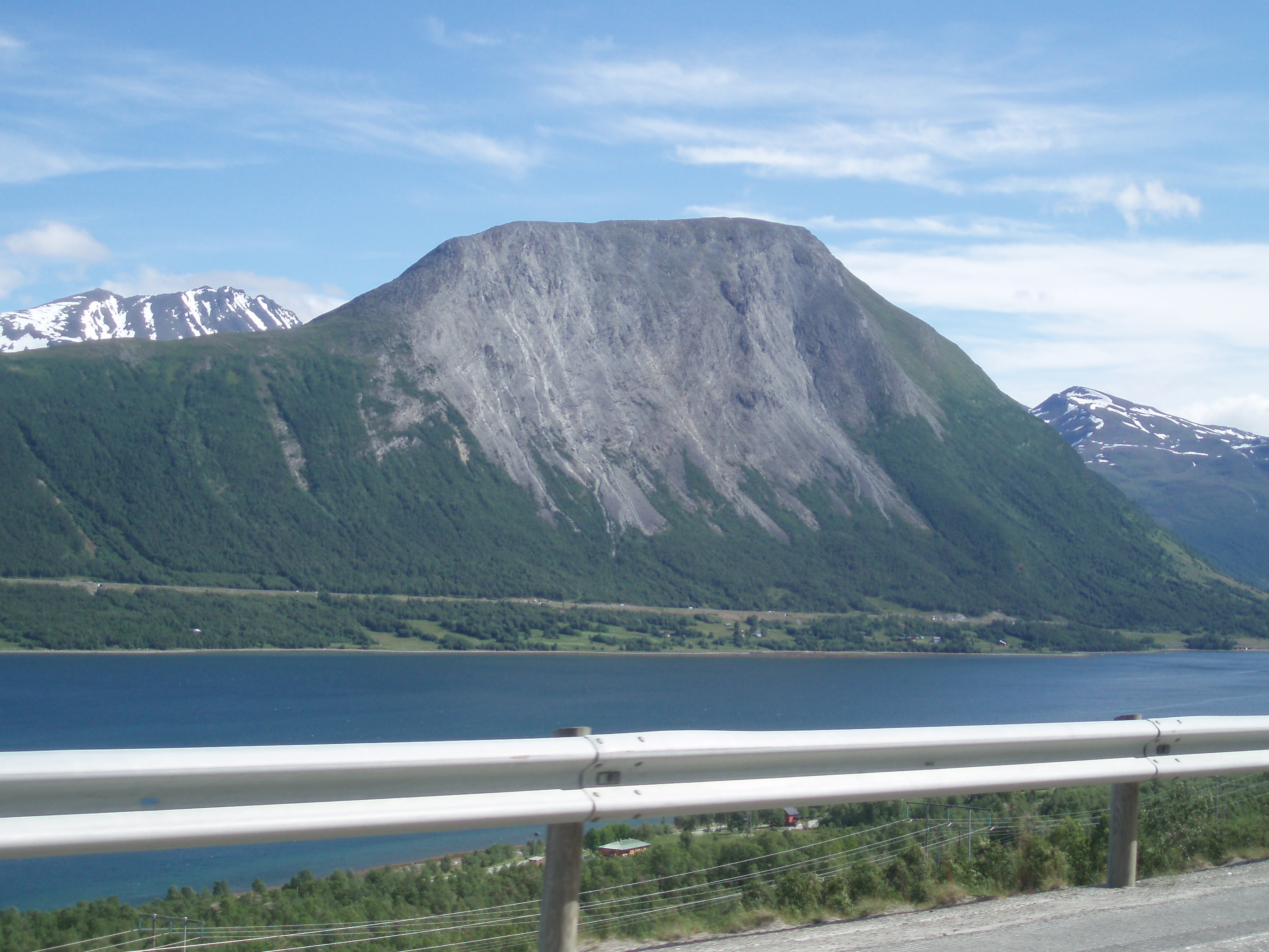 Perstinden (mountain) seen from the southwest on the European route E6 near Nordkjosbotn (small village) in Troms county, Norway.